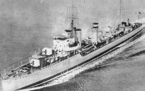 Source: [1] HMS DARING - photo taken prior to WW2.